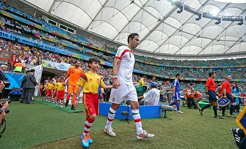 Bosnia and Herzegovina and Iran match at the FIFA World Cup